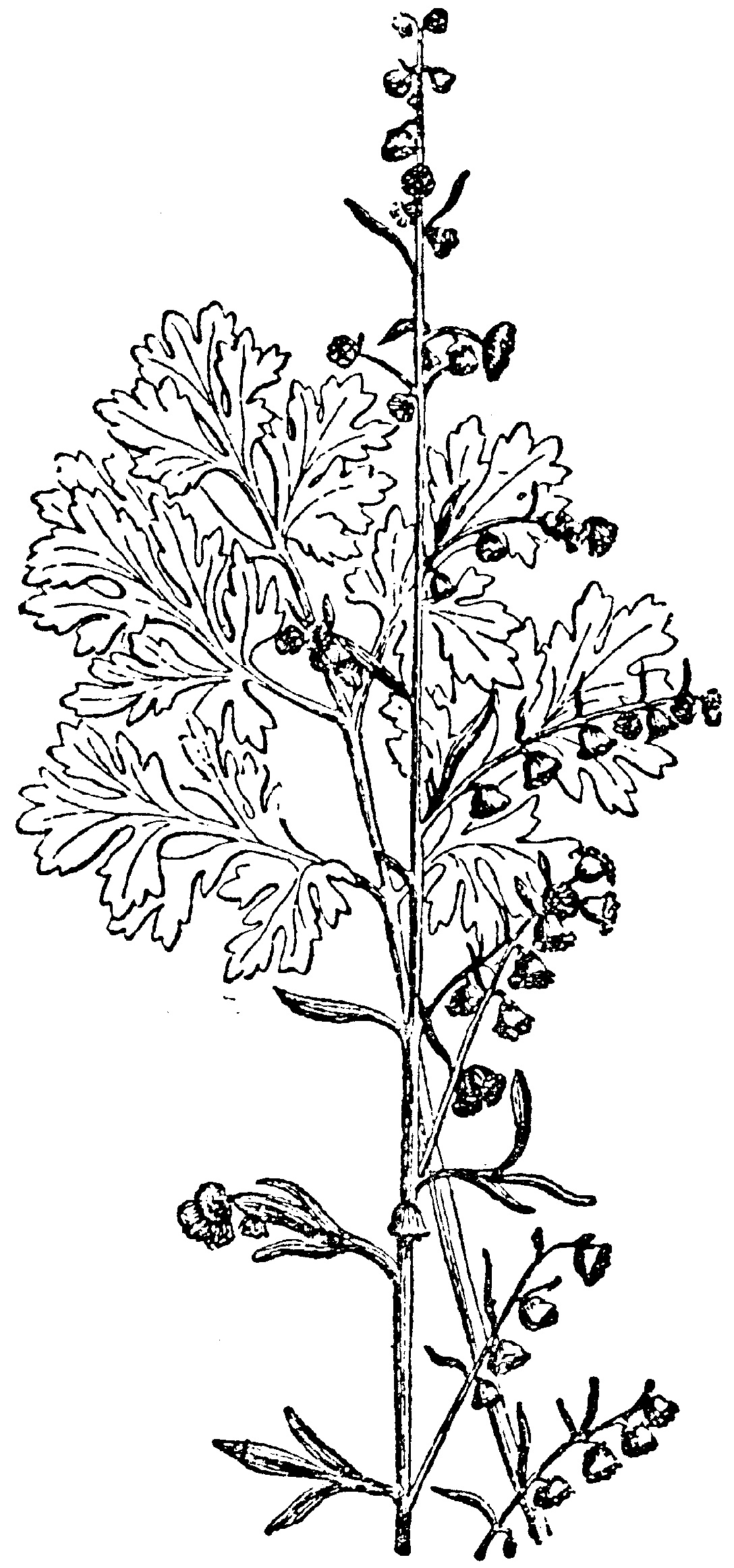 Wormwood (Artemisia absinthium)